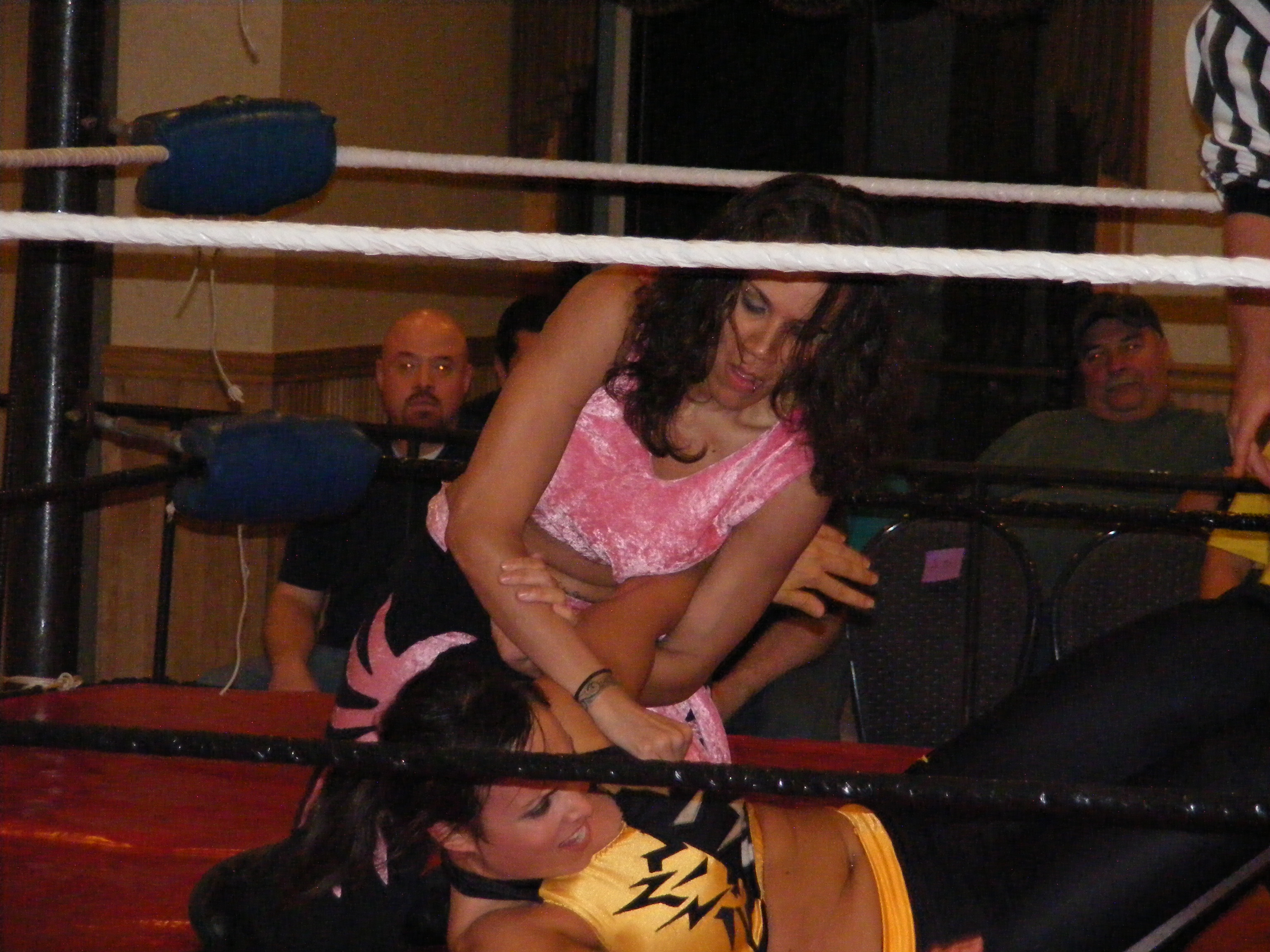 Professional wrestlers Mercedes Martinez against Sara Del Rey at an NWA LS show in Manchester, NH on June 11, 2010.